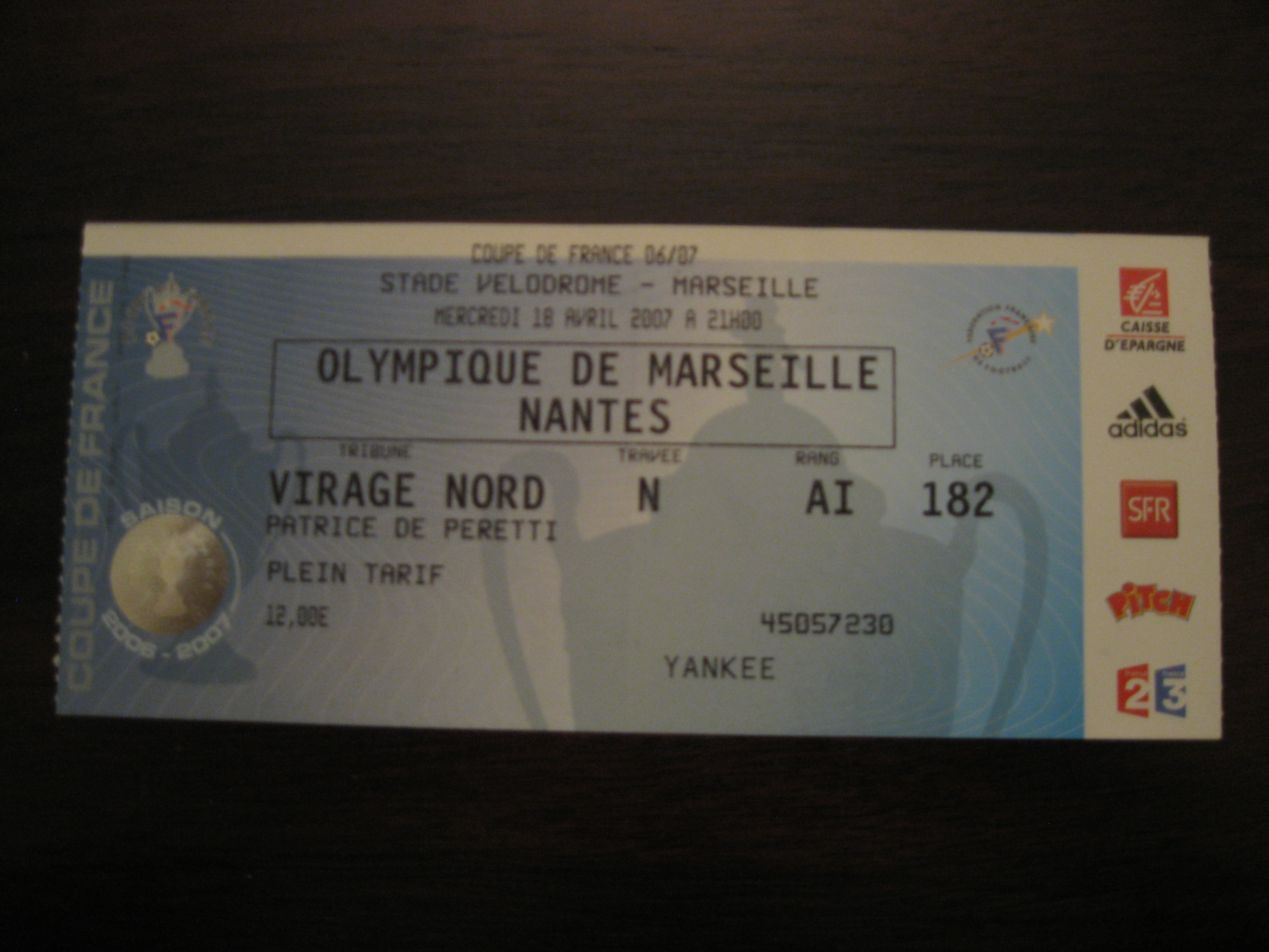 Olympique_de_Marseille_-_FC_Nantes_-_2006-2007 (french football cup)